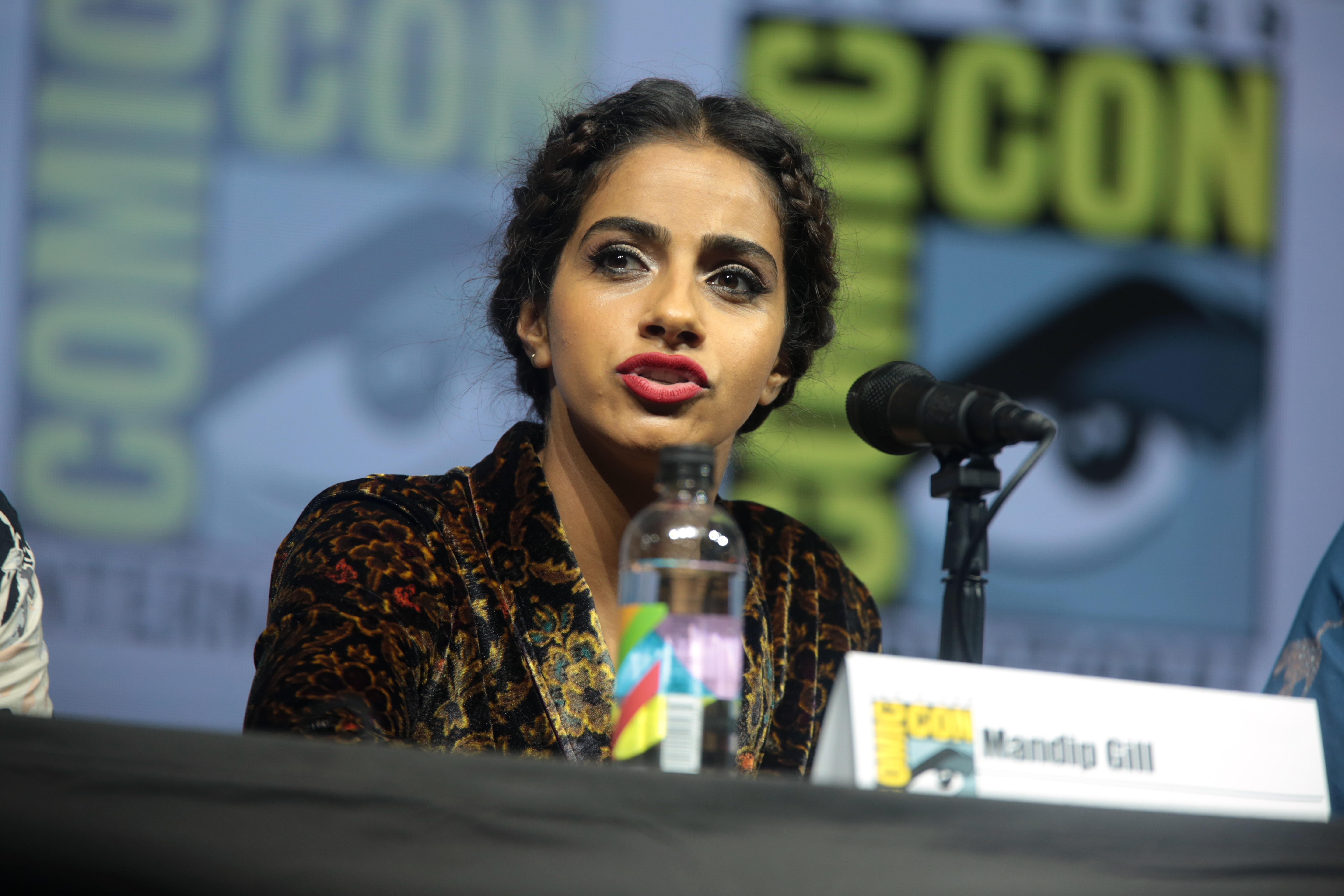 Mandip Gill speaking at the 2018 San Diego Comic Con International, for "Doctor Who", at the San Diego Convention Center in San Diego, California.